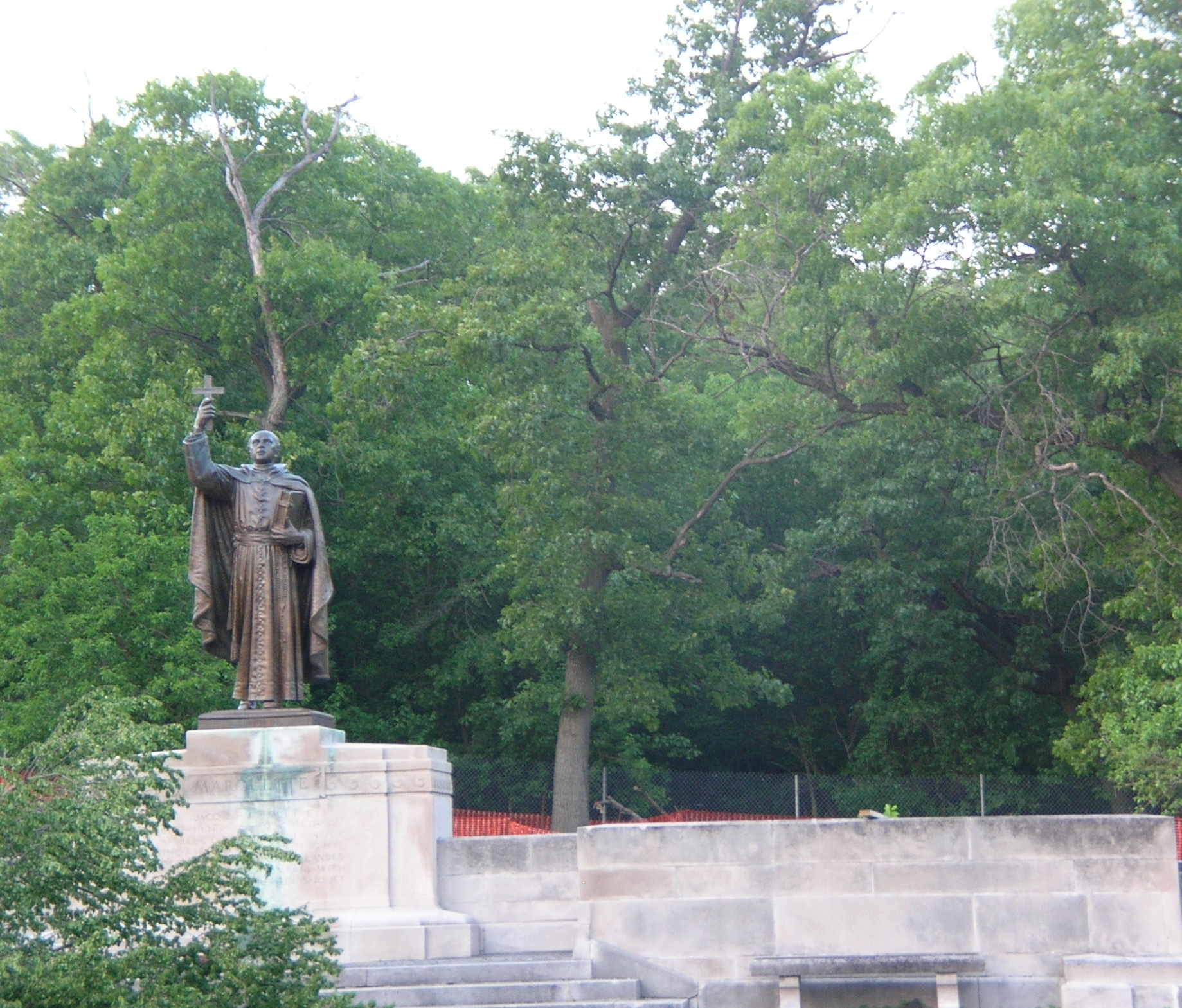 Statue of Father Marquette at the entrance to Marquette Park, a lakefront park in the Miller Beach neighborhood of Gary, Indiana.